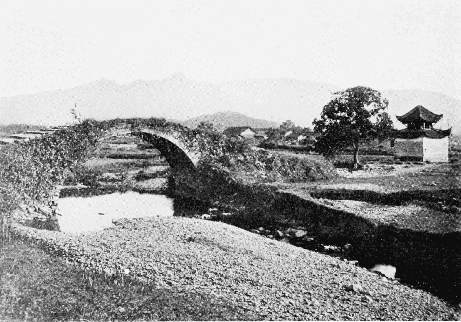 Ten Li bridge passes between Jiujiang and Lushan